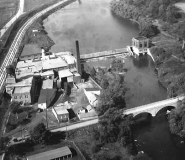 Archival photo of the Peninsular Paper Company from the early 1900s